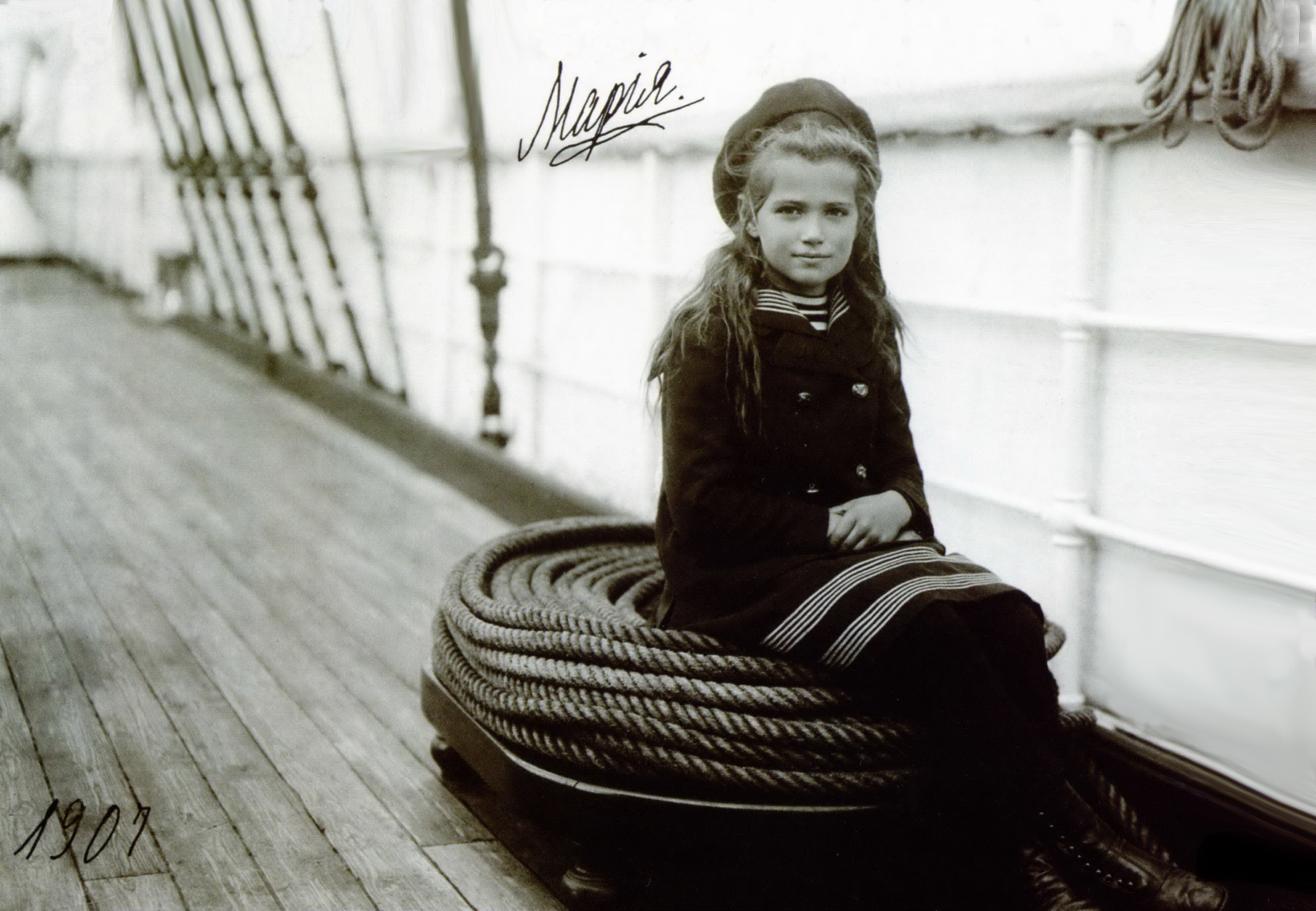 Grand Duchess Maria Nikolaevna of Russia aboard the Imperial yacht Polar Star.